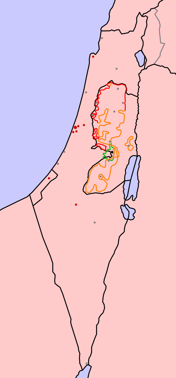 Map of Israel 2004: Based on a map from the CIA World Factbook. Legend Black line: Official national borders (including the borders of the Palestinian territories) Red line: 2004 Existing security fence Orange line: The planned security fence in 2004 Green line: Jerusalem after Israeli border definition Grey line: Eastern border of Golan Heights occupied by Israel